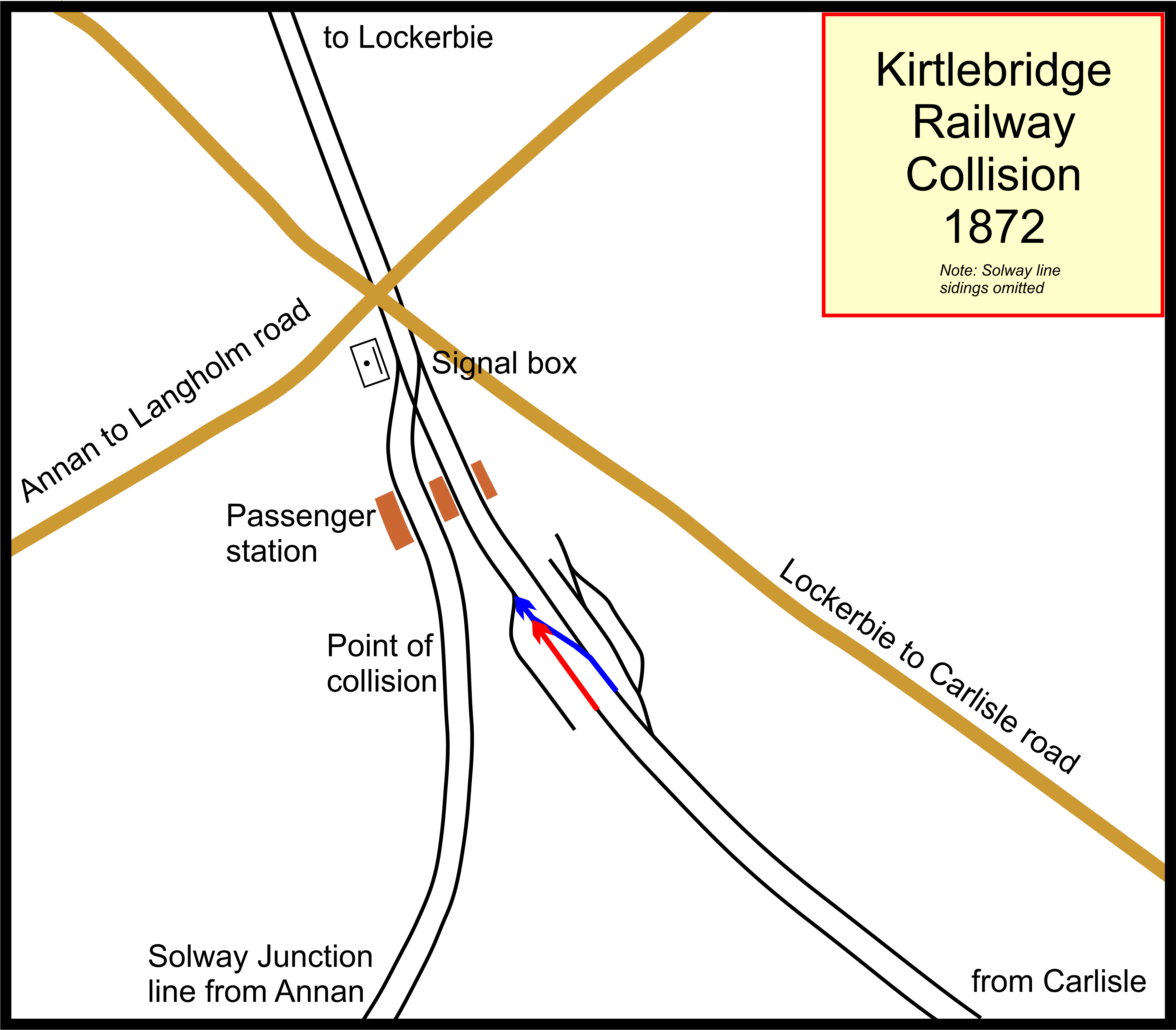 Site plan for the railway accident at Kirtlebridge Dumfriesshire October 1872